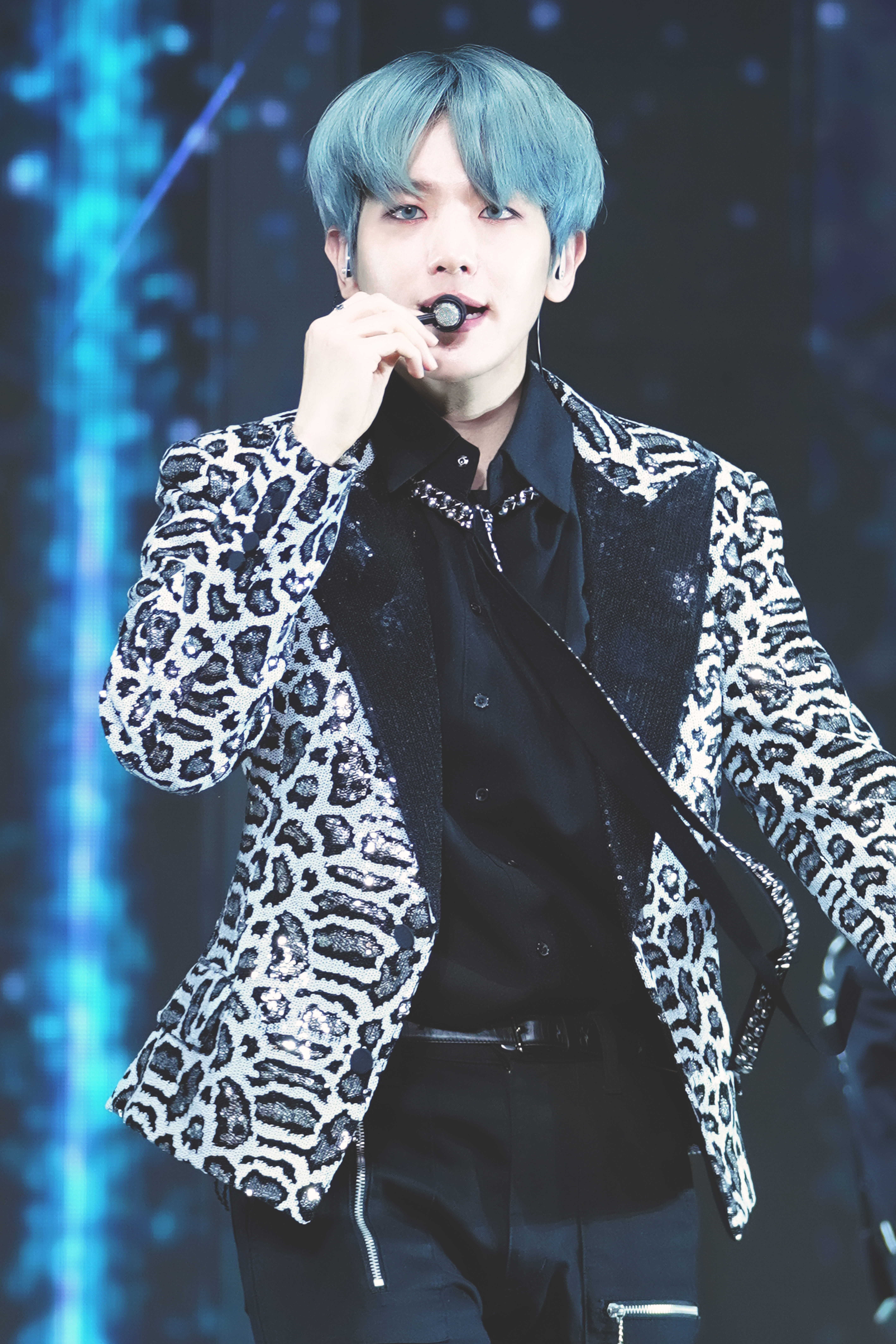 Byun Baek-hyun performing at SuperM: We Are the Future Live concert in Mexico on February 9, 2020.